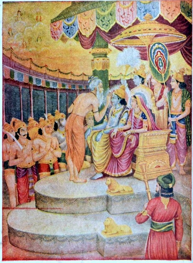 Lord Rama Raj Tilak Ramayana Rare Old Religious Print in Old Vintage Wooden Frame Indian Art #3129 US$ 55.00 Local taxes included (where applicable) Free delivery Rare find - there's only 1 of these in stock. Item details Vintage from the 1950s Handmade Material Wood Dimensions (approx.) : L x B - (23 x 17.5) cm Weight (approx.) : 320 grams Item Code : C3129 Primary material : Wood Item condition : Old Print and Frame. Some scratches and paint loss on the frame. Photographs are part of description. Overall very good condition. For more queries feel free to contact me anytime. Item Description This is an Old Print in beautiful old wooden frame. The frame is bit shabby with paint loss due to age and both frame and print are old about 50-60 years. There is the glass in the frame. Hooks are attached to the frame for hanging. This is 100% original and authentic.